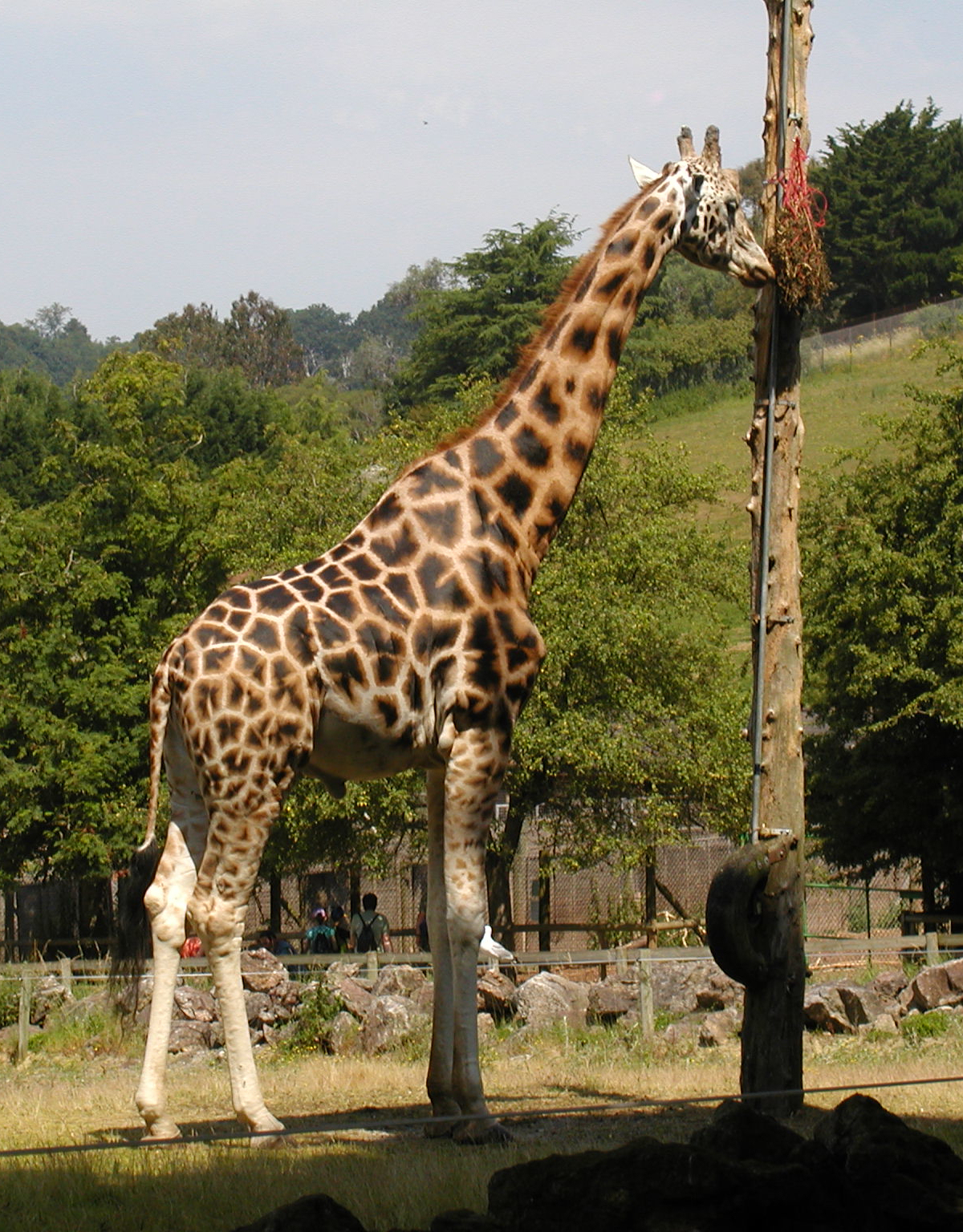 Rothschild’s giraffe at Paignton Zoo, Devon, England